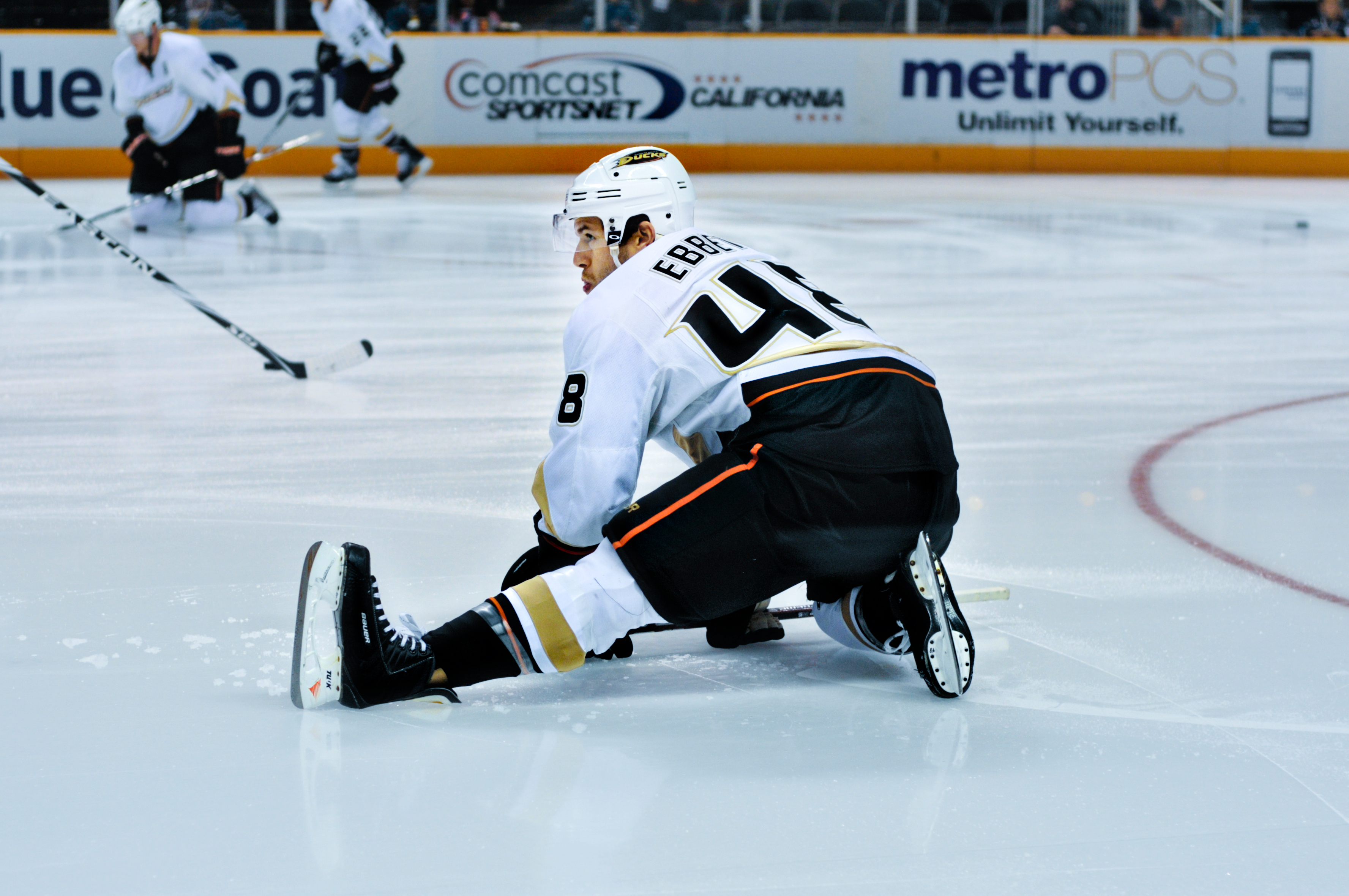 Andrew Ebbett of Anaheim Ducks